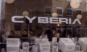 Cyberia window decoration